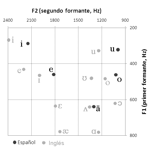 Comparison between vowels of English and vowels of Spanish